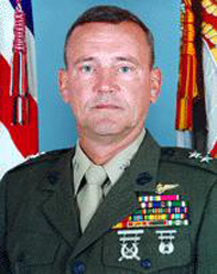 MGen Joseph T. Anderson photo from his official US Marine Corps biography